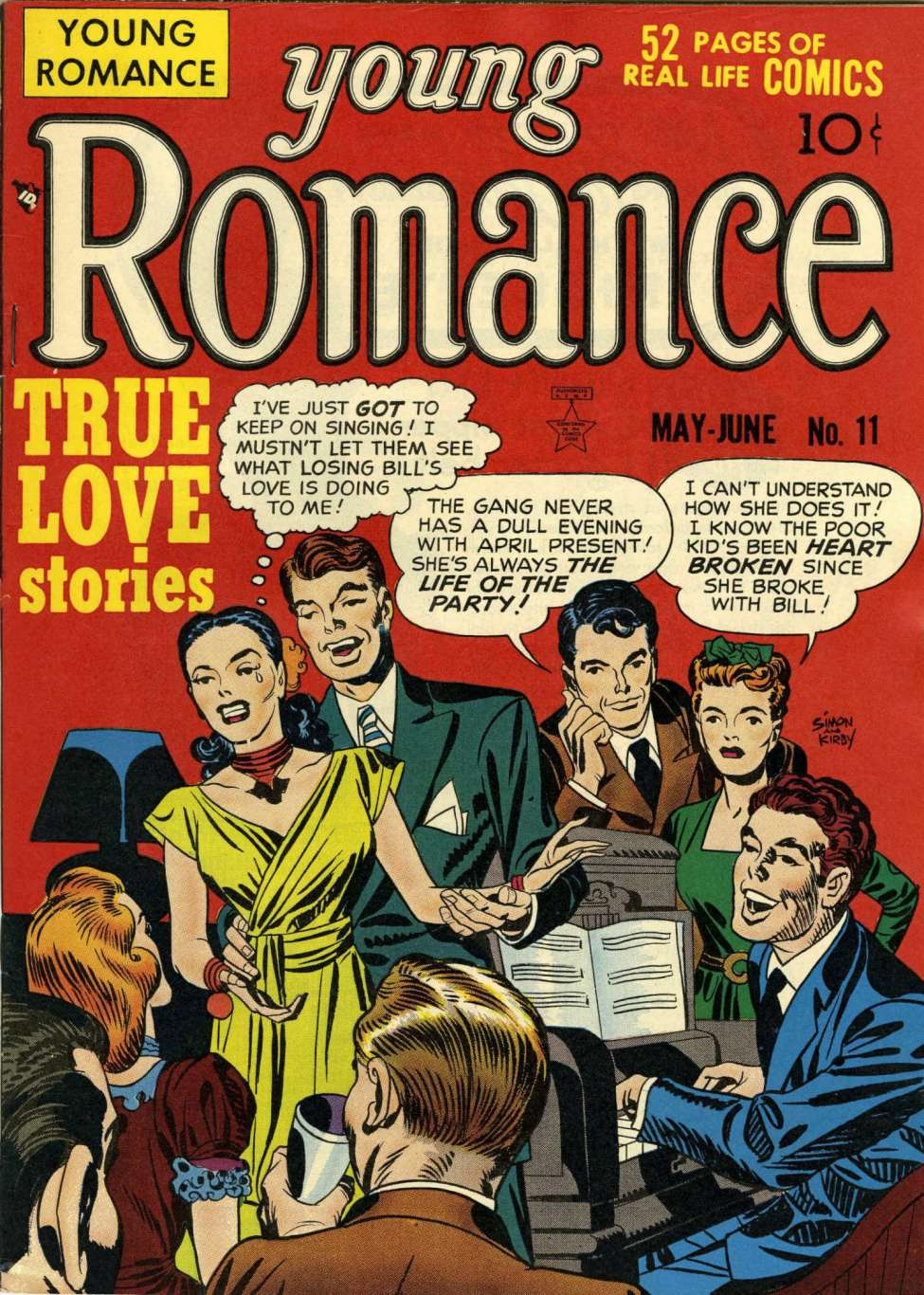 Cover of Young Romance 11 (May/June 1949 Crestwood Publications). Art by Joe Simon and Jack Kirby.